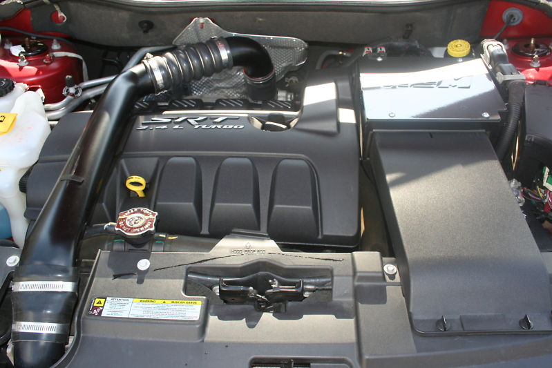 Turbocharged 2.4L I4 GEMA Engine - 285HP. Dodge Caliber SRT-4